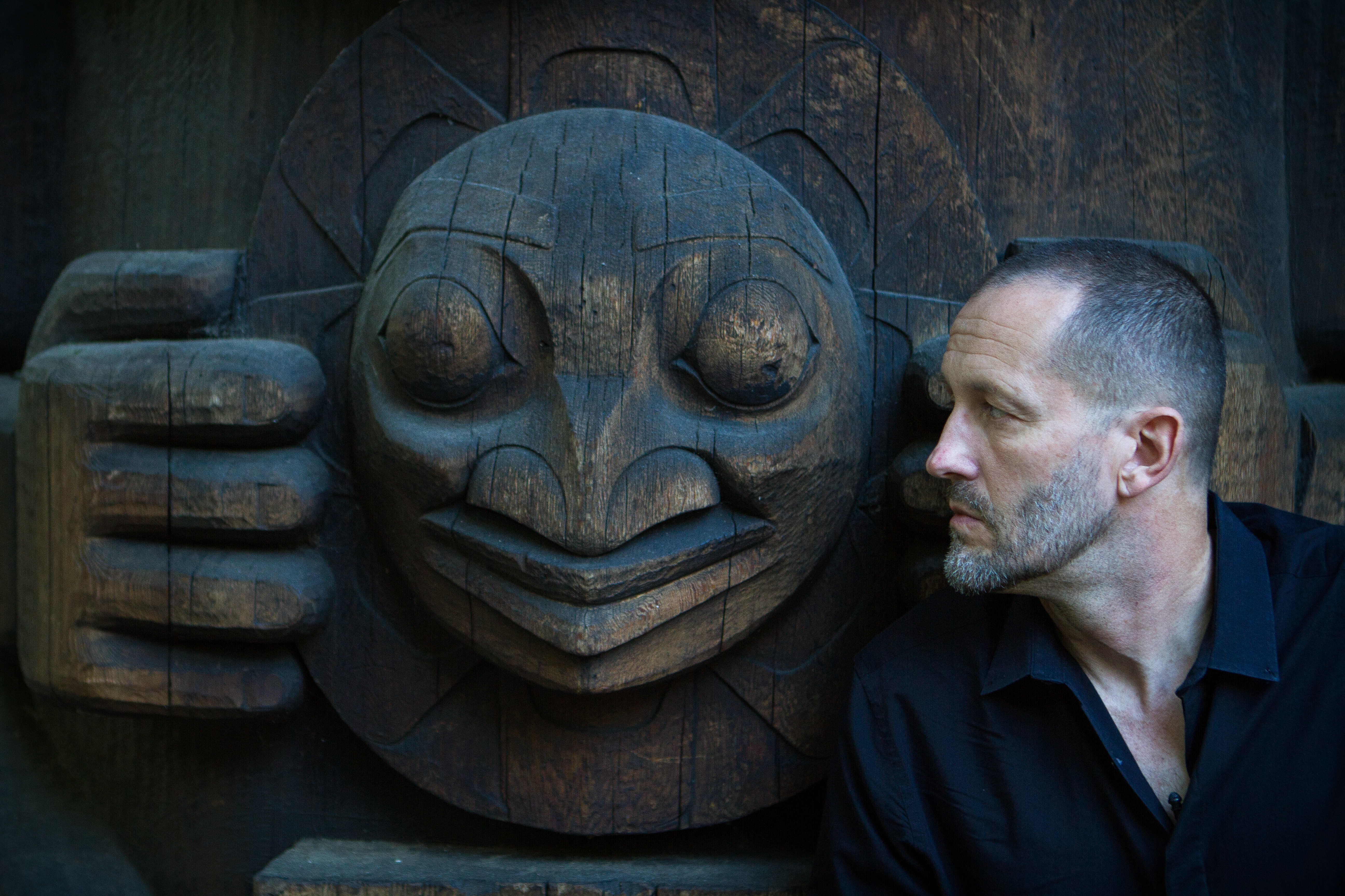 Montana in 2017 on set of The Final Sin